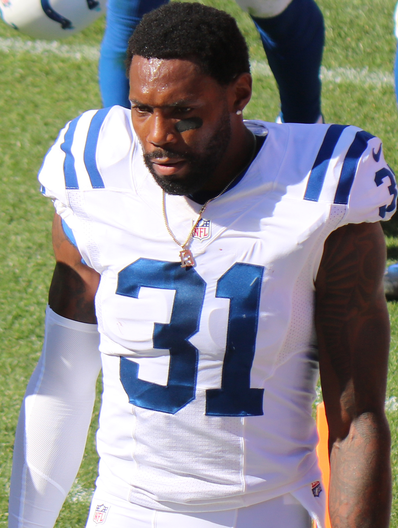 Antonio Cromartie, a player on the National Football League.